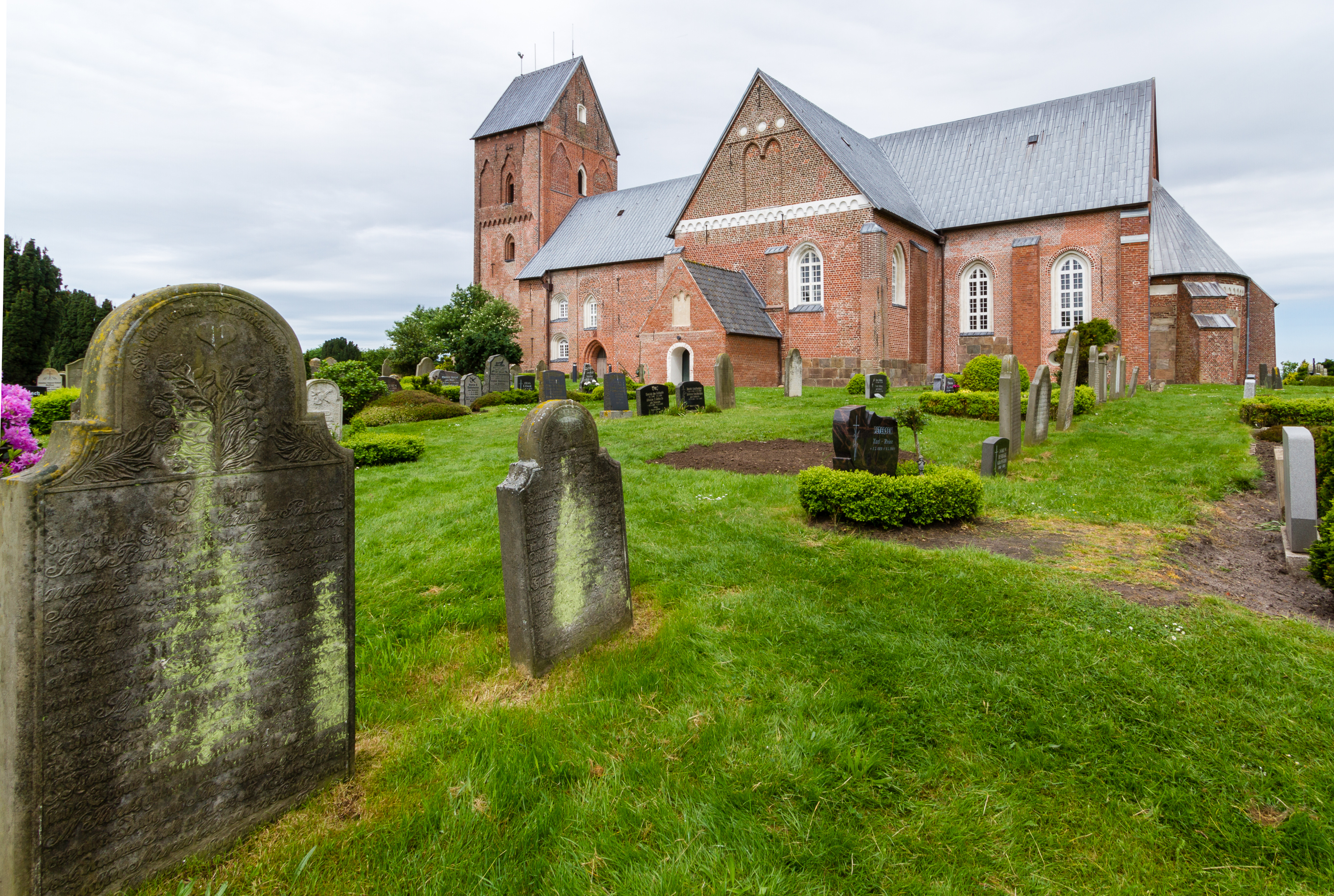 This is a photograph of an architectural monument. Designation: Churchyard with stone wall Construction time: until 1870 Description: In the churchyard are grave steles, mostly from the 19th century. Category: Green monument, Material entity: Church St. Johannis Place: Municipality Nieblum, Collective municipality Föhr-Amrum, District Nordfriesland, Schleswig-Holstein, Germany Location: Karkstieg